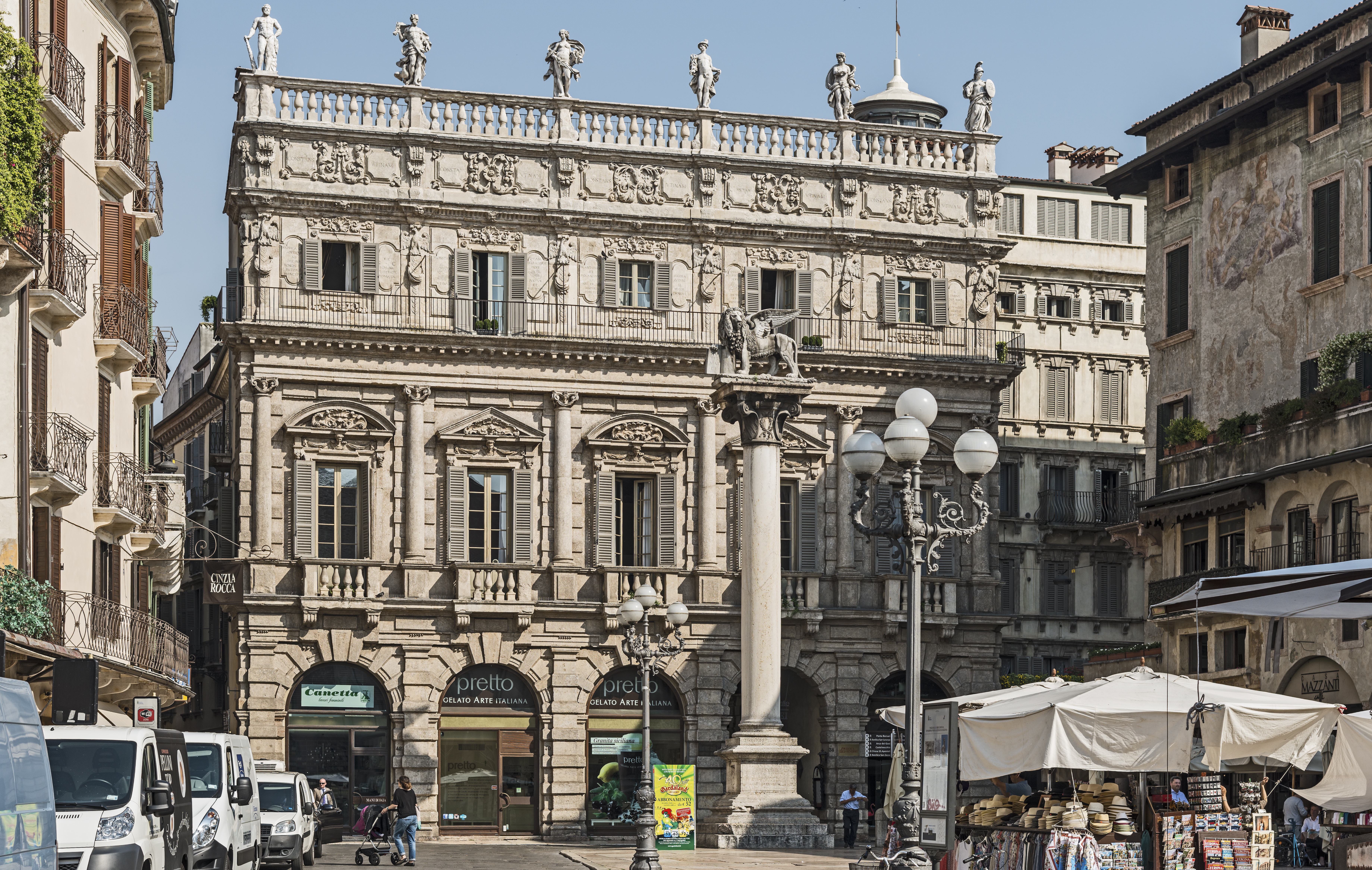 Northern part of the Piazza delle Erbe with the facade of the Palazzo Maffei in Verona.